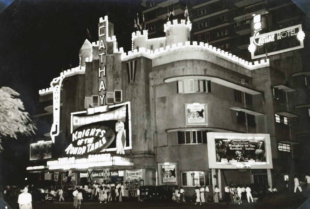 Cathay Cinema and Hotel by night, Singapore, 1954, showing the film Knights of the Round Table (1953) Part Of: Powerhouse Museum Collection General information about the Powerhouse Museum Collection is available at Persistent URL